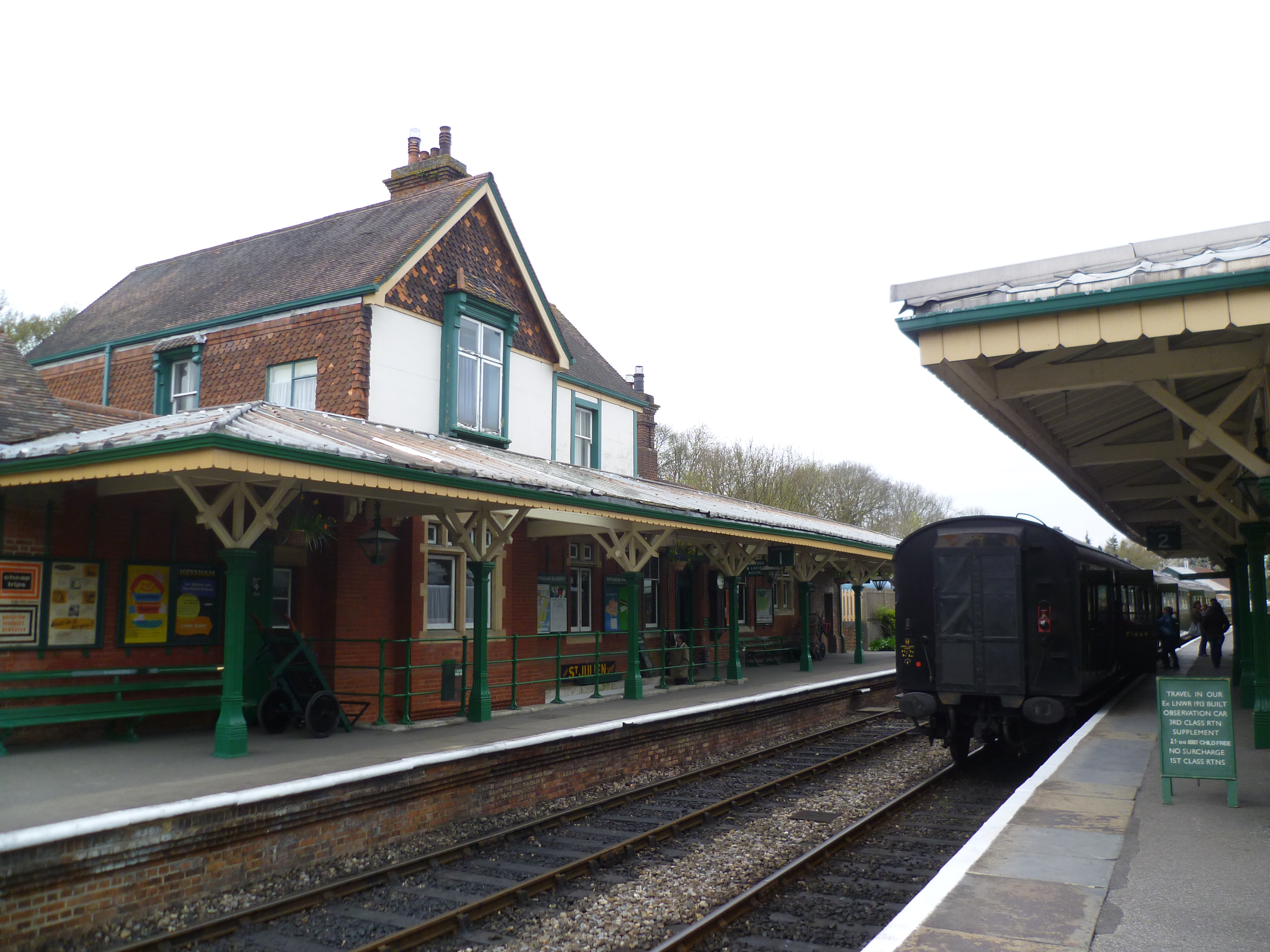 A view of Kingscote Railway Station, on the Bluebell line.